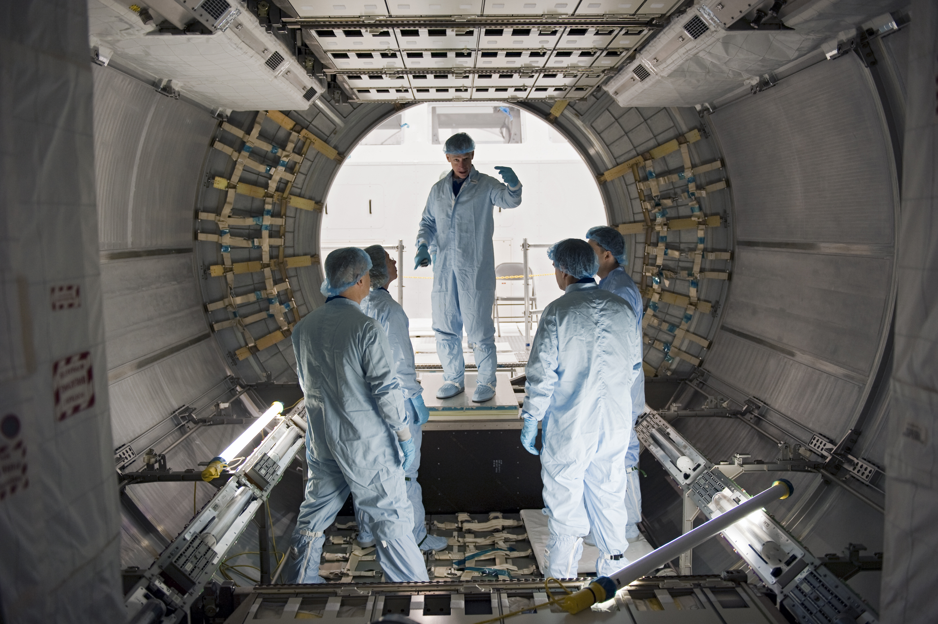 CAPE CANAVERAL, Fla. – In the Space Station Processing Facility at NASA's Kennedy Space Center in Florida, the STS-135 crew inspects the Raffaello multi-purpose logistics module with the carrier's technician. From left are Pilot Doug Hurley, Mission Specialist Sandy Magnus, Commander Chris Ferguson (upper level), a carrier technician and Mission Specialist Rex Walheim. The four-member crew is at Kennedy participating in the Crew Equipment Interface Test (CEIT), which gives them an opportunity for hands-on training with tools they'll use in space and familiarization of the payload they'll deliver to the International Space Station. Shuttle Atlantis is being prepared for the STS-135 mission, which will deliver the Raffaello module packed with supplies and spare parts to the station. Atlantis is targeted to launch June 28, and will be the last shuttle flight for the Space Shuttle Program. For more information visit